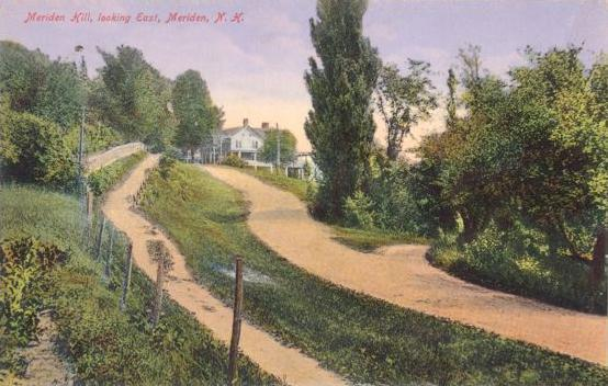 Meriden Hill, looking east, Meriden, New Hampshire